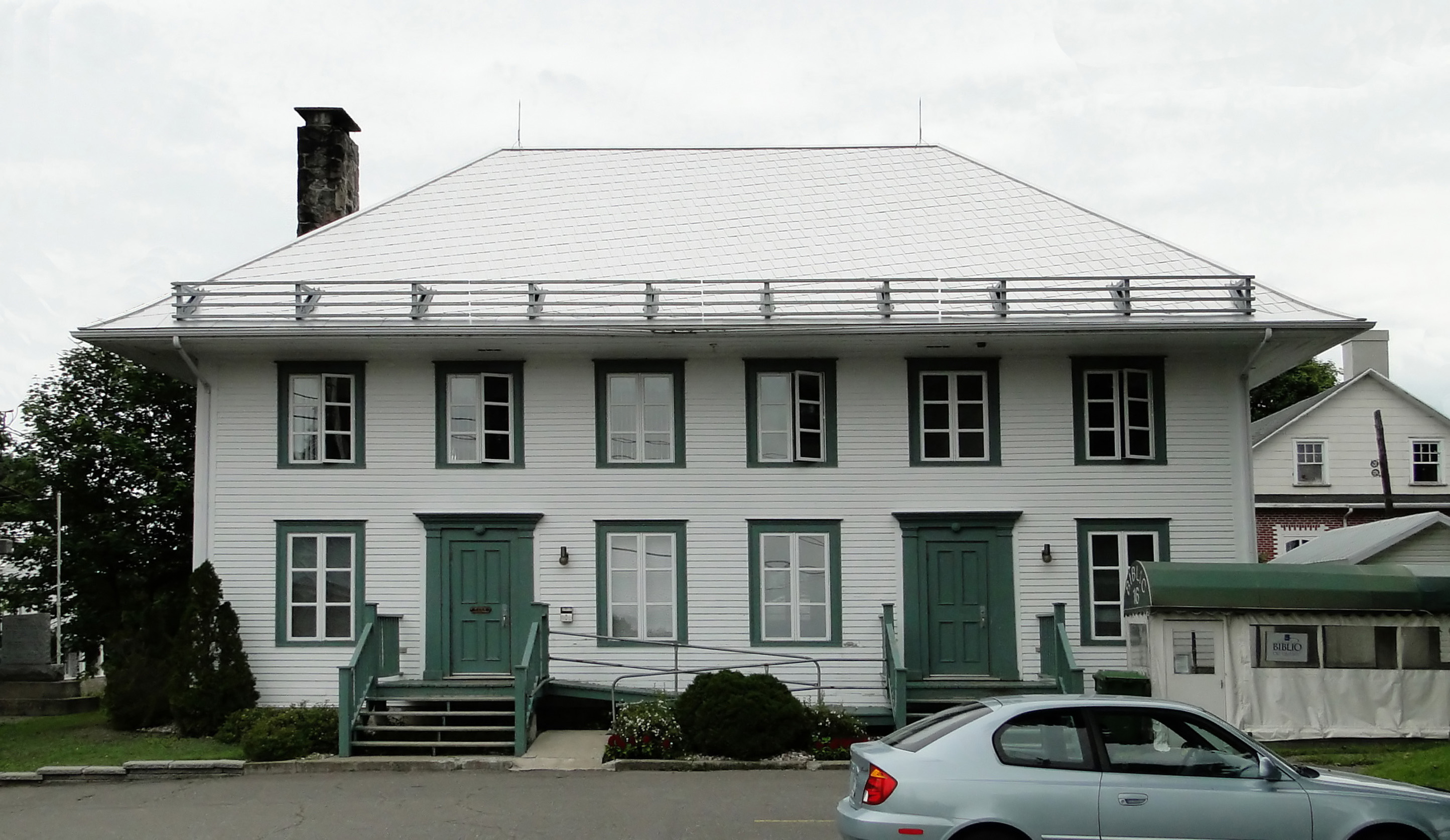 Salle des Habitants de l'Islet-sur-Mer (1827), l'Islet, province of Quebec, Canada